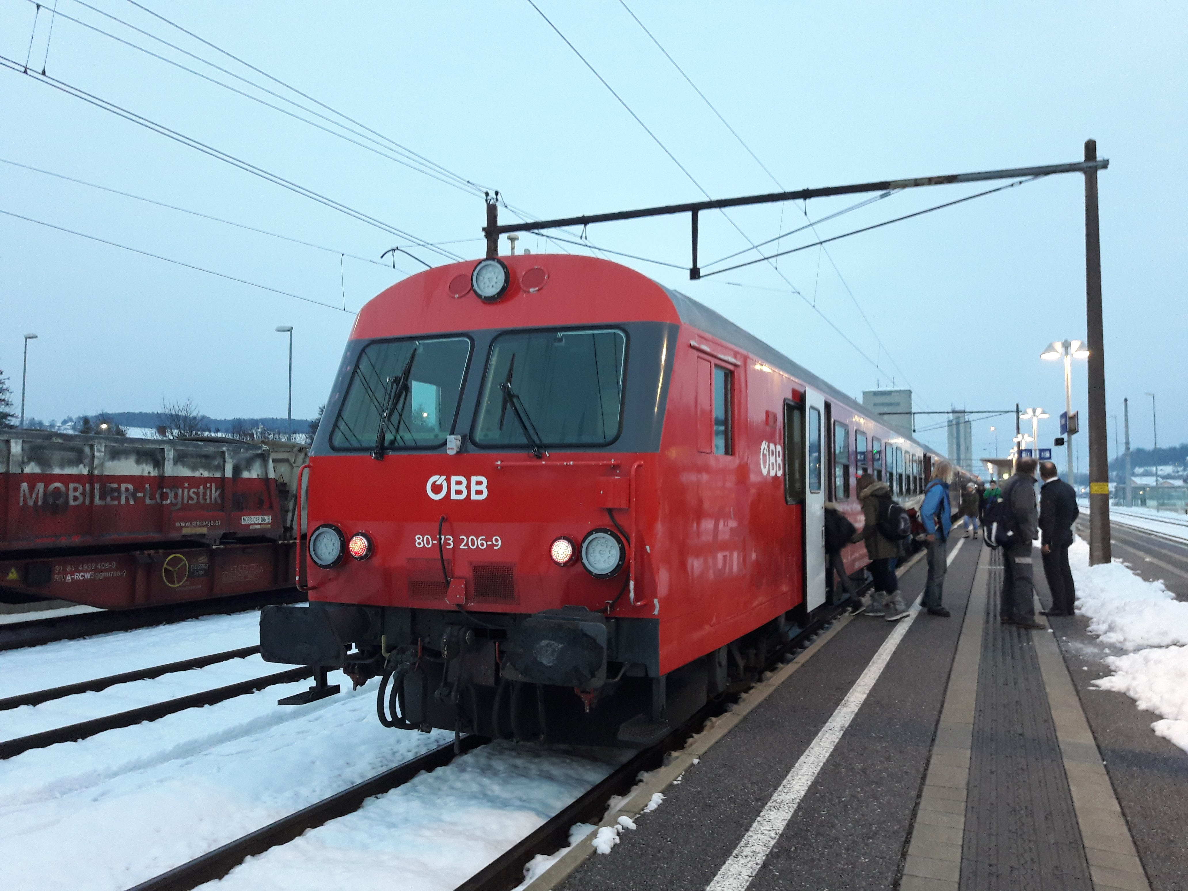 ÖBB Cityshuttle im Bahnhof Feldbach als REX